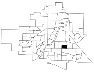 A map showing the location of the Greystone Heights neighbourhood in Saskatoon, Saskatchewan, Canada